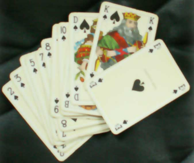 Playing cards - spades